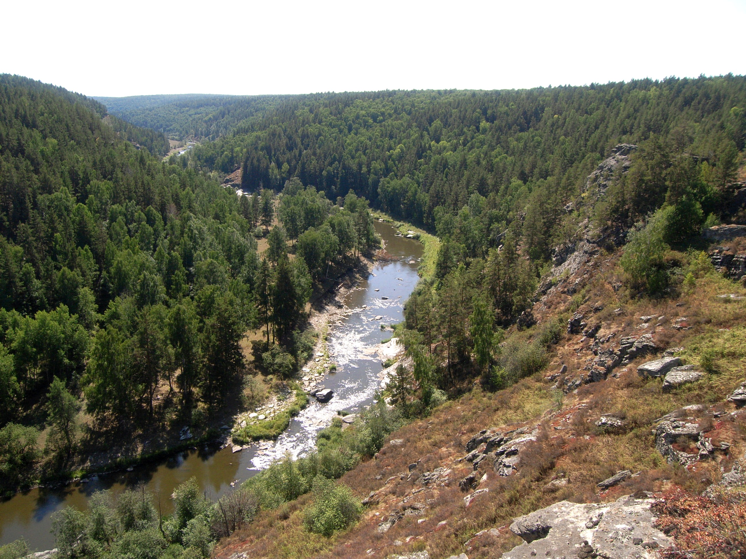 Top view of Sakmara. August.